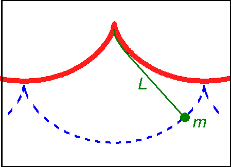 Schematic diagram of a cycloid pendulum, showing how the mass also follows a cycloid.